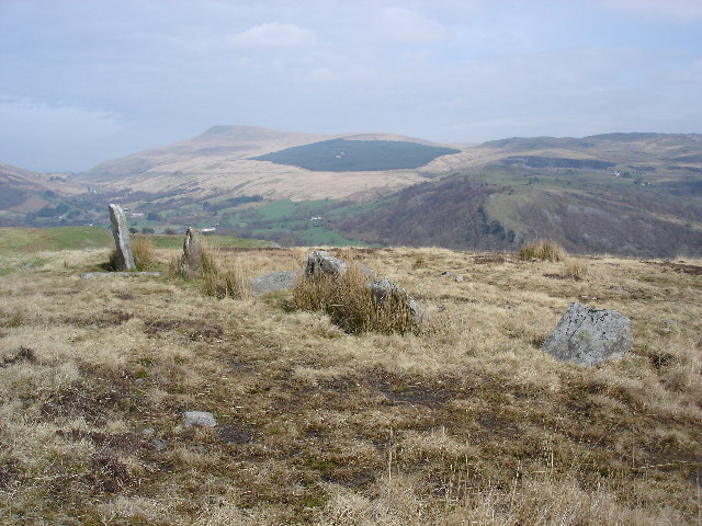 Saith Maen Stone Row. Next to the stone row is a massive shake/swallow hole and you can hear the water trickling into it - like a massive mouth down to the underworld.